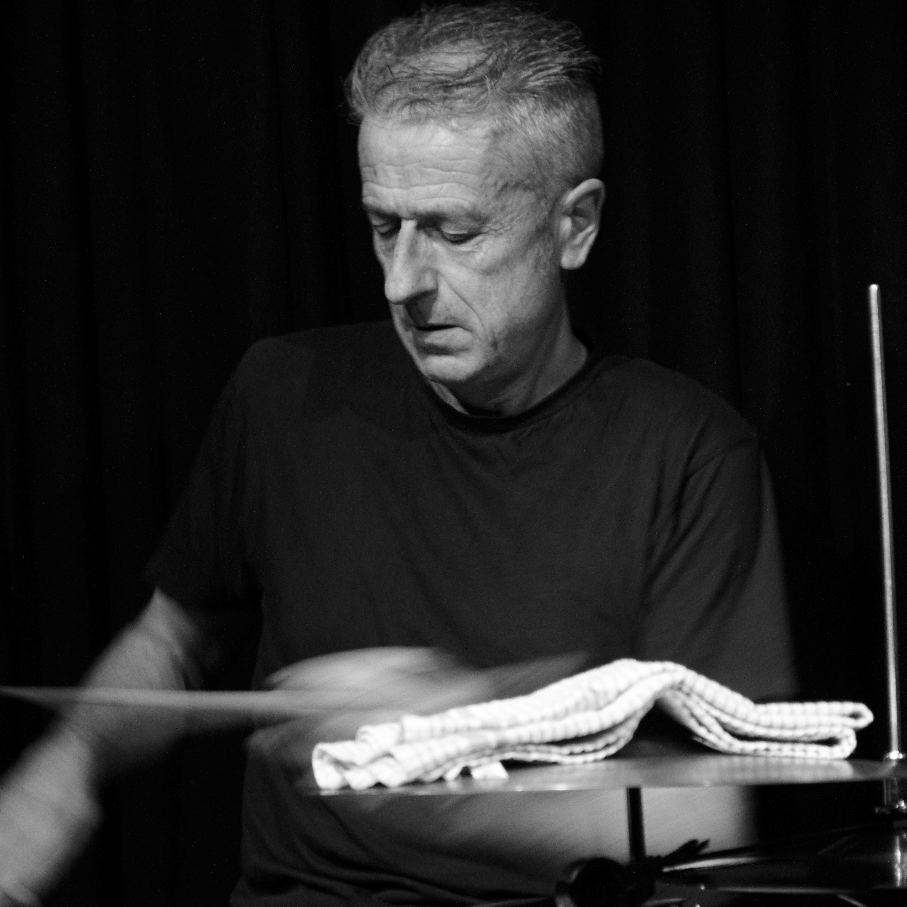 Stefan Keune (sax), Dominic Lash (db) & Steve Noble (dr) in concert at Club W71.